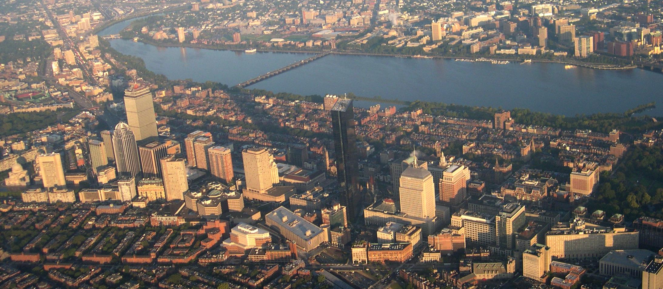 Aerial view of Back Bay, Boston including the Prudential Center and John Hancock Tower